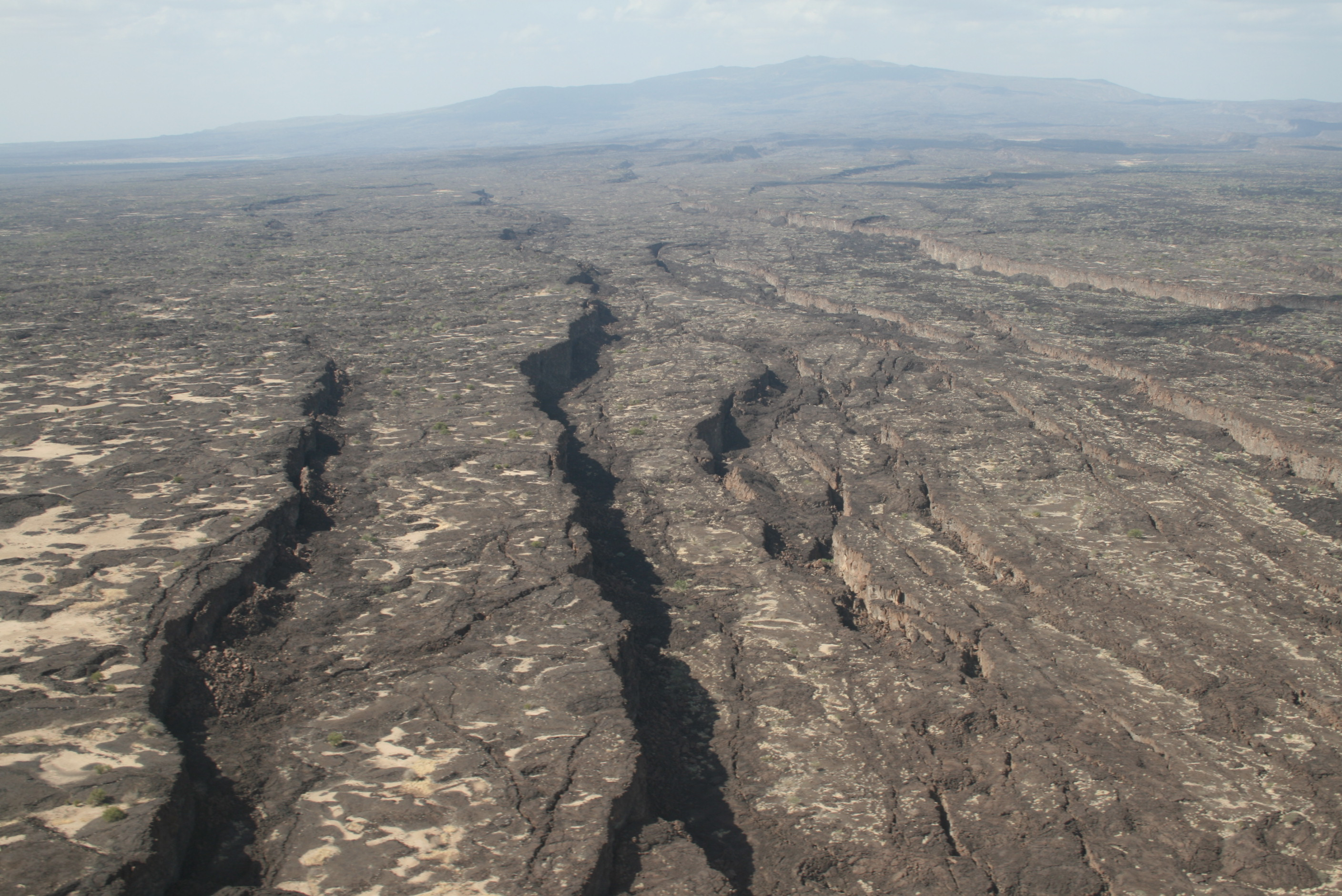 View along the active Manda-Hararo rift, towards Dabbahu volcano, Afar, Ethiopia